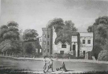 Views of the Ruins of the Principal Houses destroyed during the Riots at Birmingham - Russell's house.